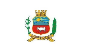 Flags of the city of Campos Altos, Minas Gerais, Brazil.